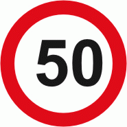 Diagram of road signs of Luxembourg